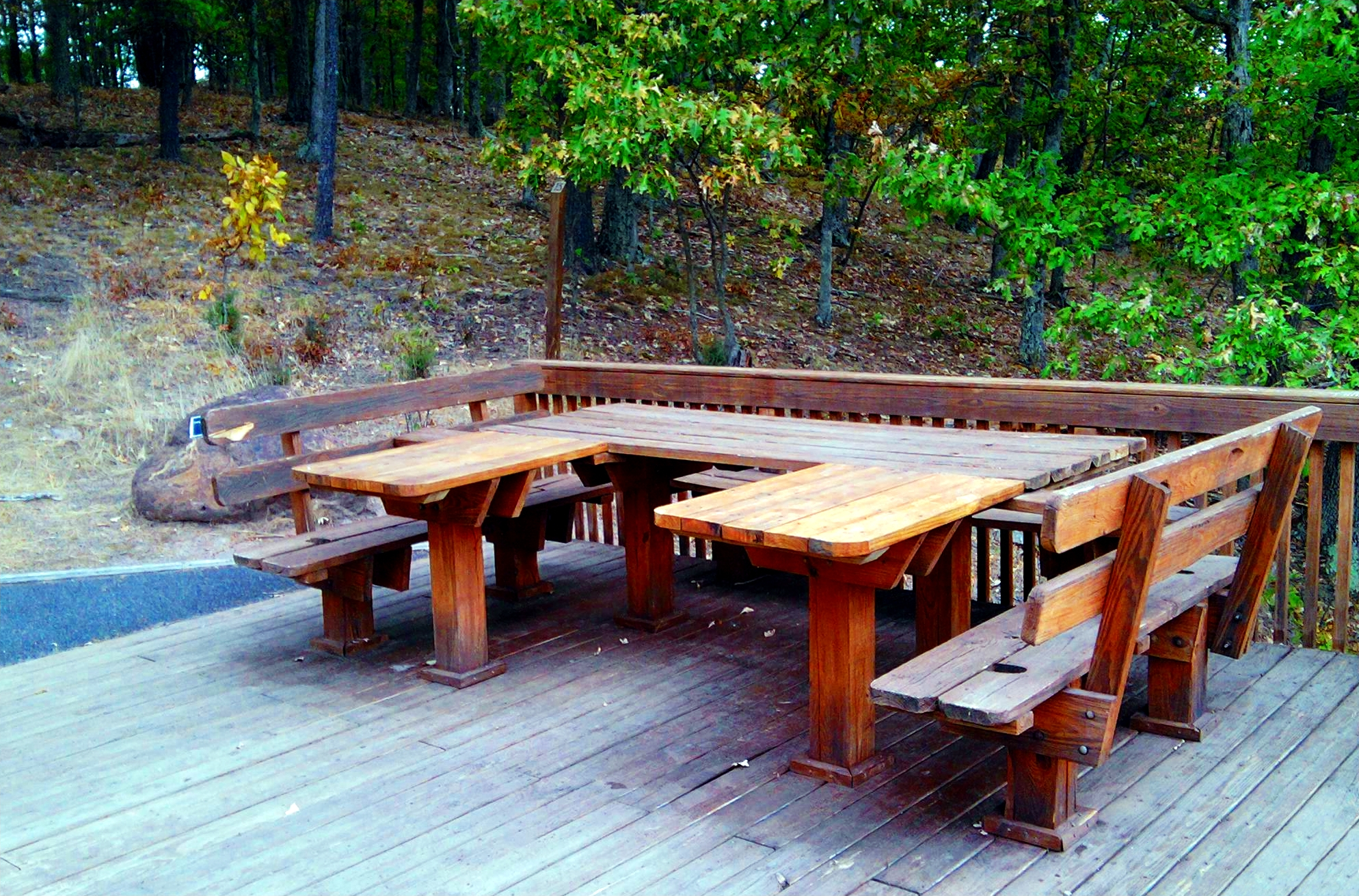 Handicapped Picnic Area